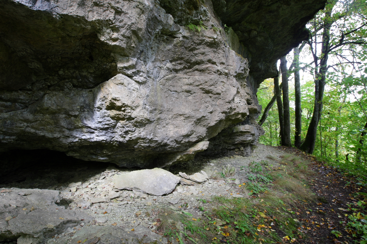 Hanila Parish, Lääne County, Estonia